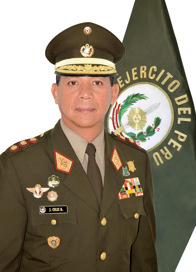 Jorge's Picture